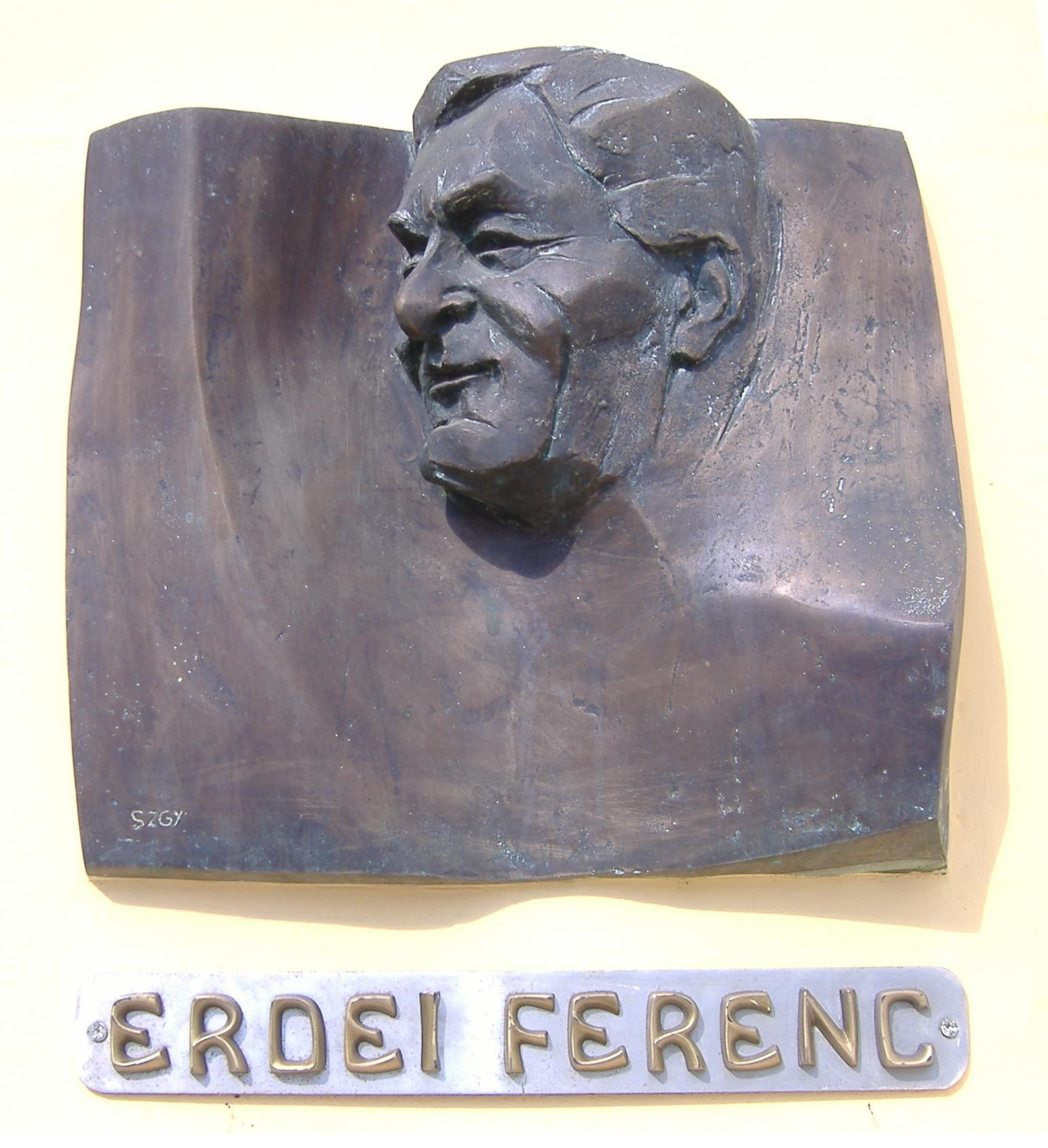 Relief of Ferenc Erdei, Hungarian sociologist, politician in Makó, Hungary.